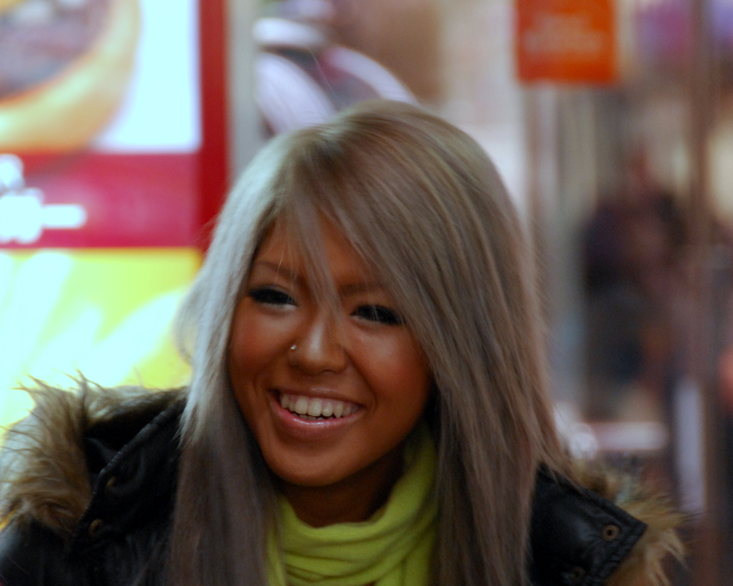 This photo was taken on December 24, 2006 in Tokyo, Tokyo Prefecture, JP, using a Nikon D200.